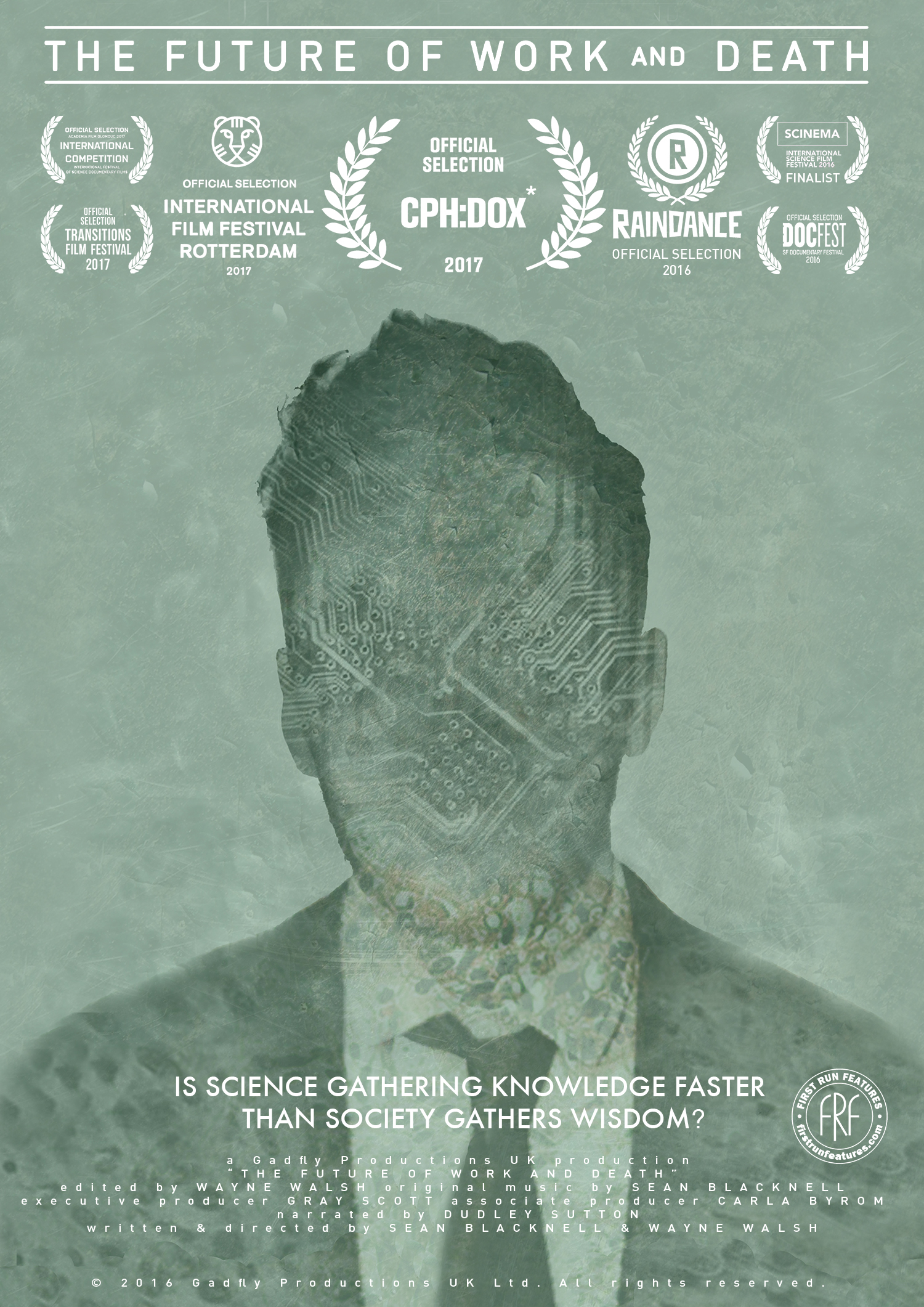 This is a poster for the film The Future of Work and Death. The poster art copyright belongs to the distributor of the item promoted, Gadfly Productions, the publisher of the item promoted or the graphic artist.